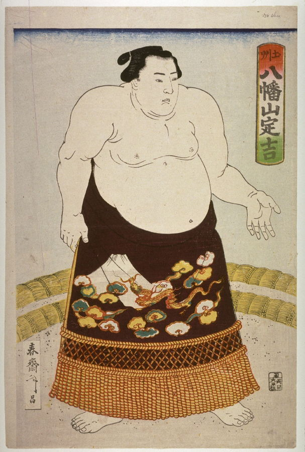 The Wrestler Yahatayama Sadakichi from Tosa Province (Doshū, Yahatayama Sadakichi), Woodblock print (nishiki-e); ink and color on paper